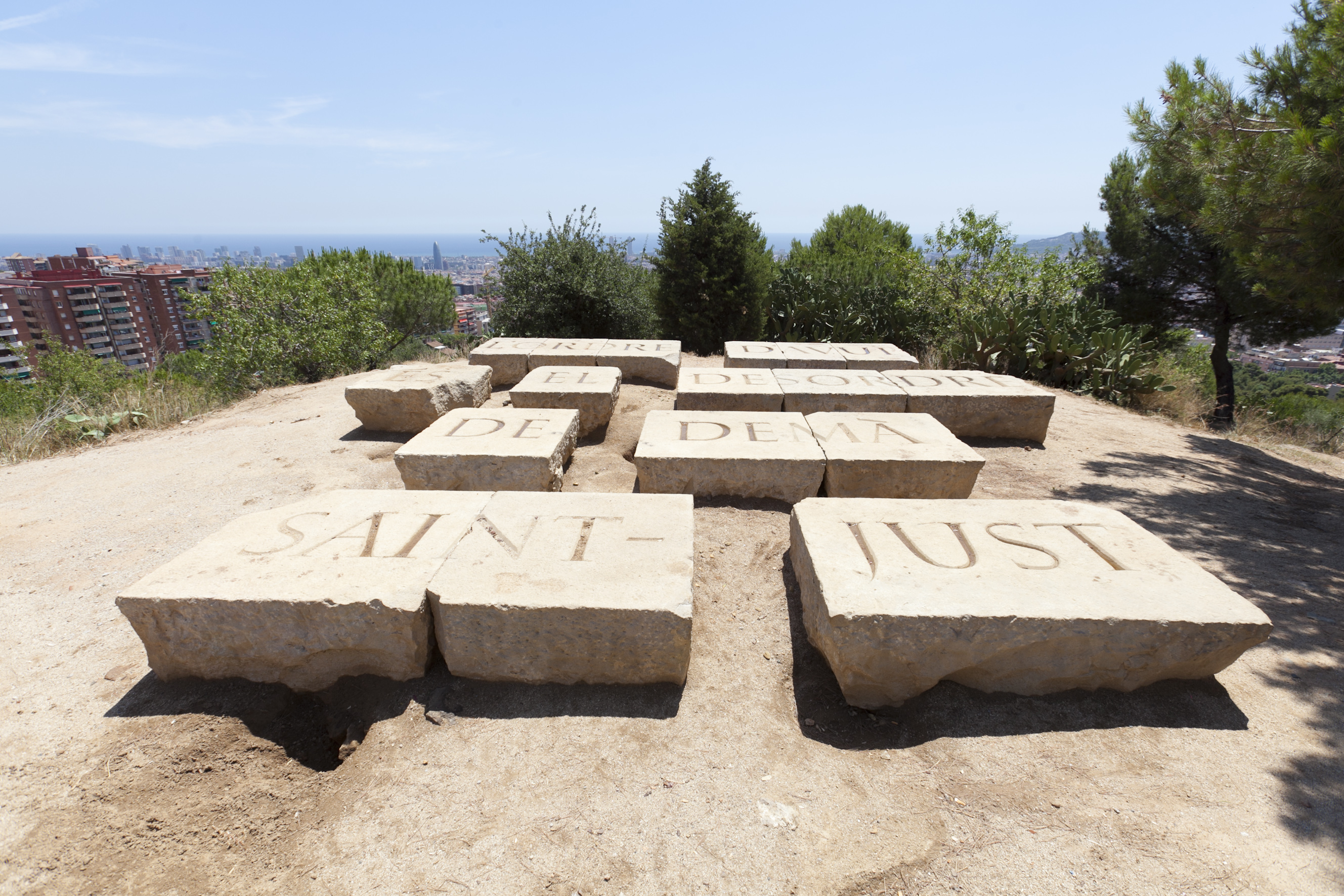 Historical Routes at the Horta-Guinardó District Administration in Barcelona This image was provided to Wikimedia Commons by the Horta-Guinardó District Administration in Barcelona as part of an ongoing cooperative project with Amical Viquipèdia. English | +/−